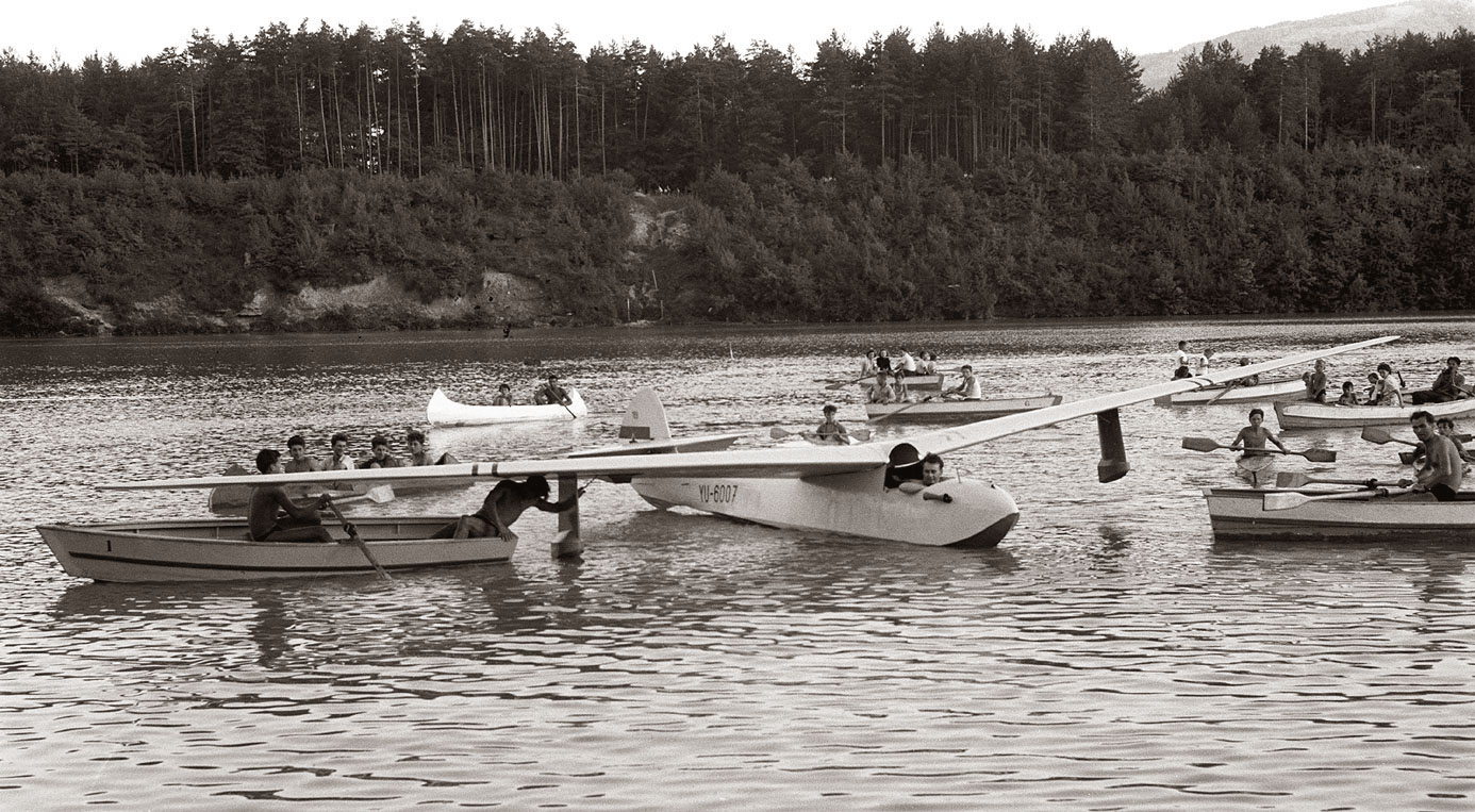 A Koser KB-3 Jadran flying boat glider